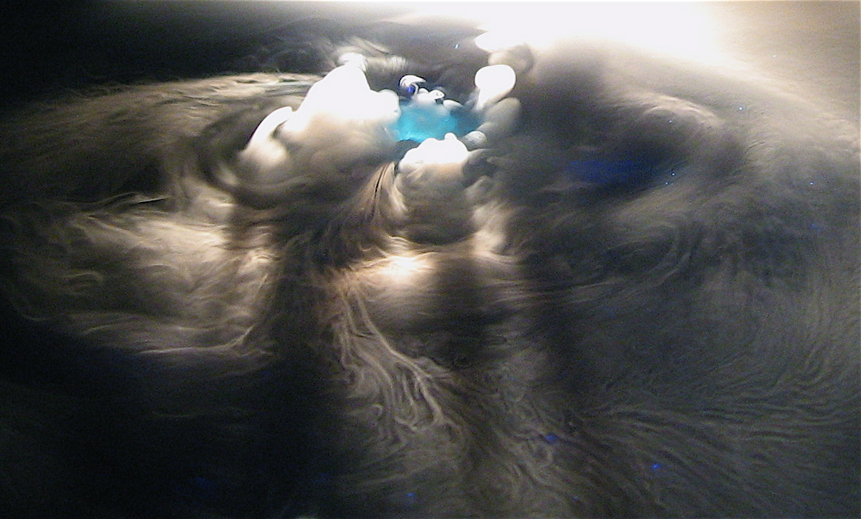 Before stars, the universe had only the three lightest elements: hydrogen, inert helium, and a bit of lithium. With just these building blocks, the complex molecules needed for life would not be possible (blog: Ode to Carbon). Carbon, oxygen and the rest of the heavier elements came from the crucible of stars that died billions of years ago. Here you see a light blue pellet of “dry ice” floating on a shallow bed of dark blue water and shooting off geysers of carbon dioxide as it warms up. The dry ice is solid CO2 which sublimates directly to gas as it warms up (skipping the liquid phase altogether). Particles glide along the surface, spin, and merge when they touch. Here is a very cool video of the icy bodies spinning and shooting around.